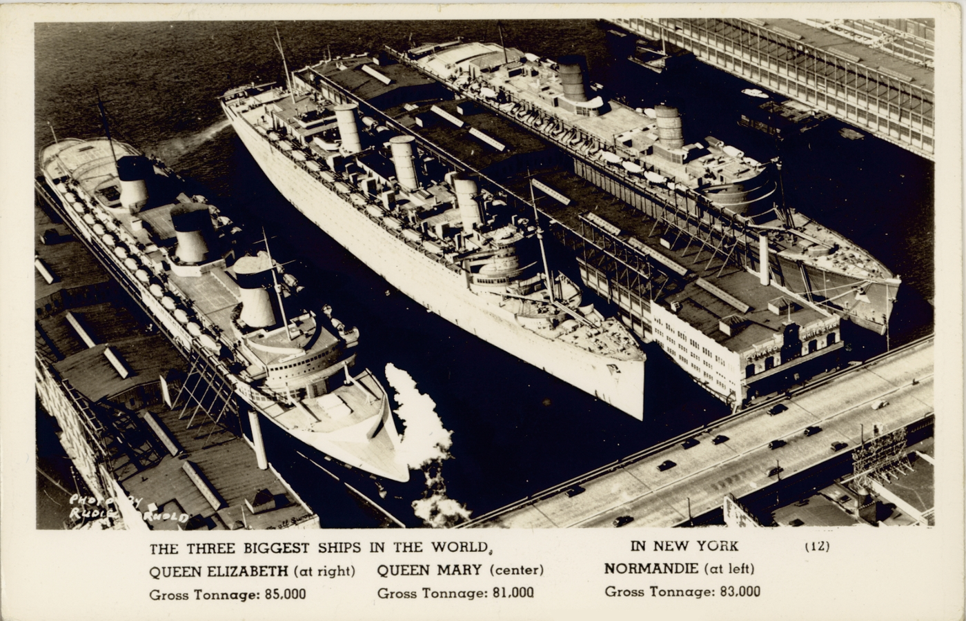 Note: The three largest ships in the world, Queen Elizabeth, Queen Mary and Normandie, together only once. The plan was for them to all be made into troopships. Unfortunately the Normandie was destroyed at her wharf when she caught fire. A brilliant plan to open the seacocks and sink her to the bottom of the Hudson was ignored and she capsized with all the water pumped into the superstructure. Format: Photomechanical postcard From the collections of the Mitchell Library, State Library of New South Wales Information about photographic collections of the State Library of New South Wales: .au/search/SimpleSearch.aspx Permanent URL: .au/item/itemDetailPaged.aspx?itemID=447927